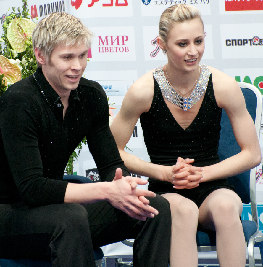 2011 Cup of Russia, short program.